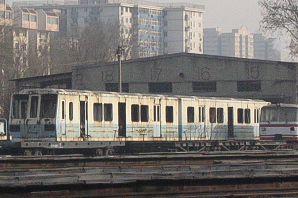 This DK6 train, with the fleet number Beijing 501, was derelict at Taipinghu depot and went rusty several years ago...